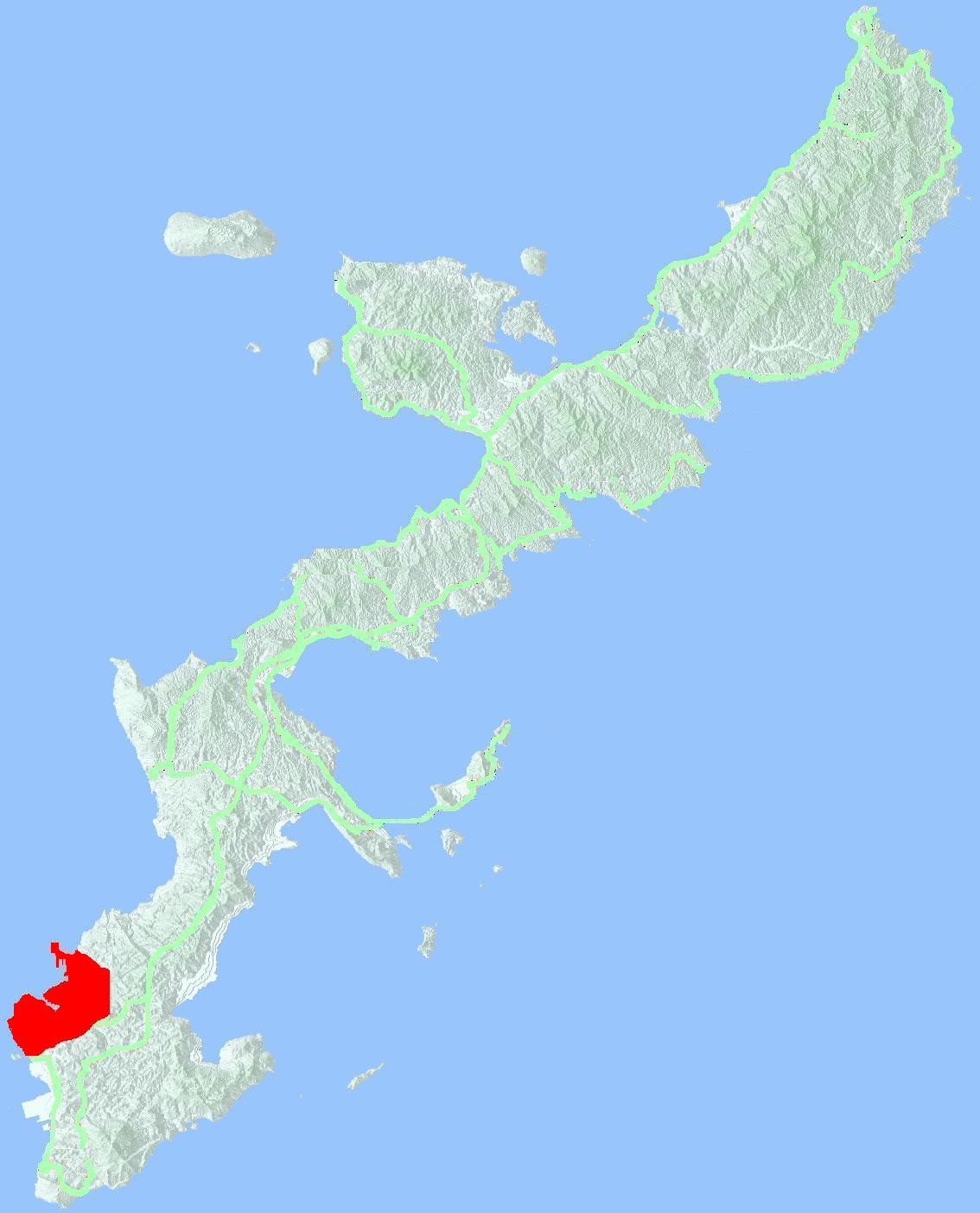 The location of Naha City and and airport areas in Okinawa Prefecture, Japan.